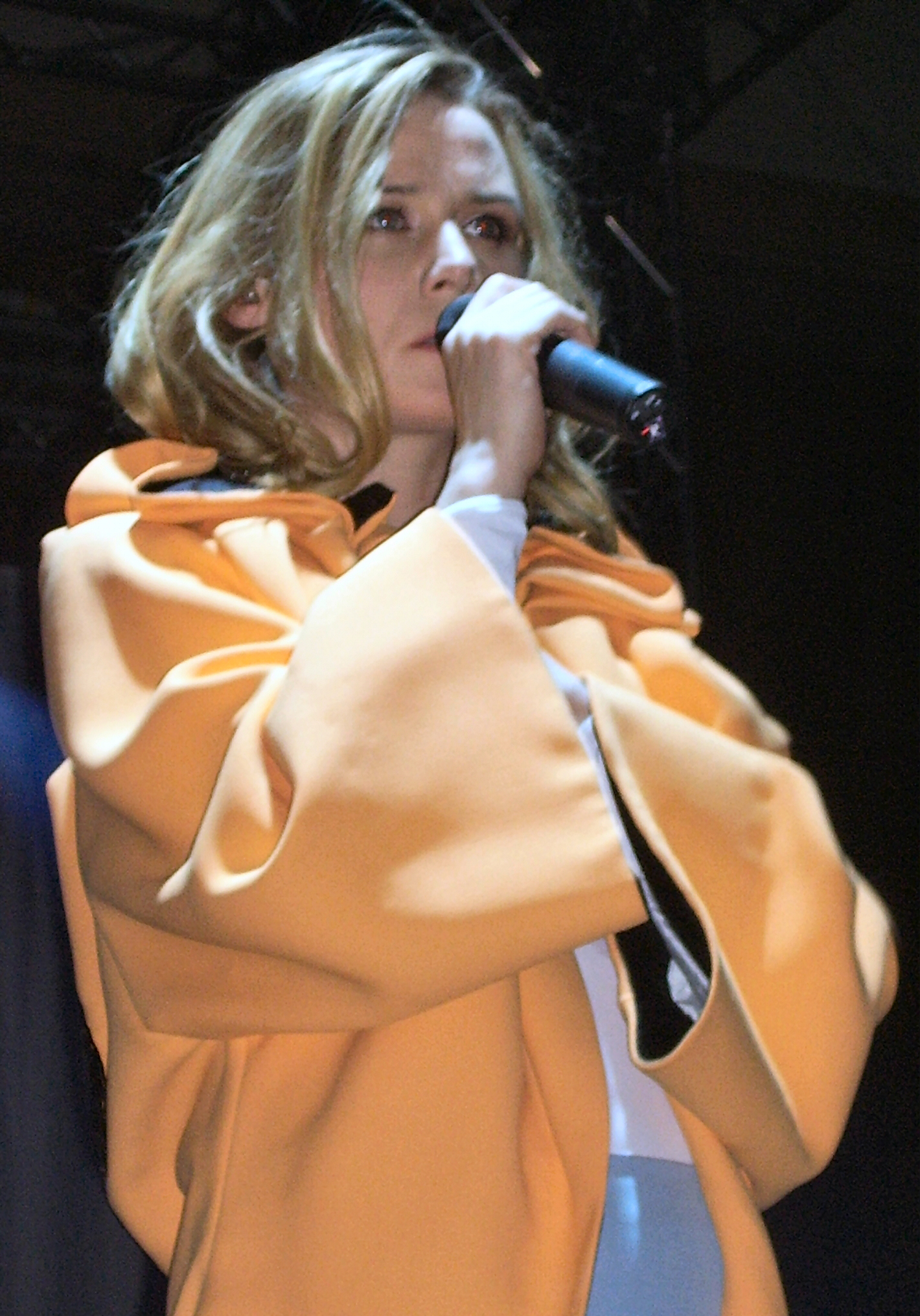 Róisín Murphy live in Sofia, Bulgaria.